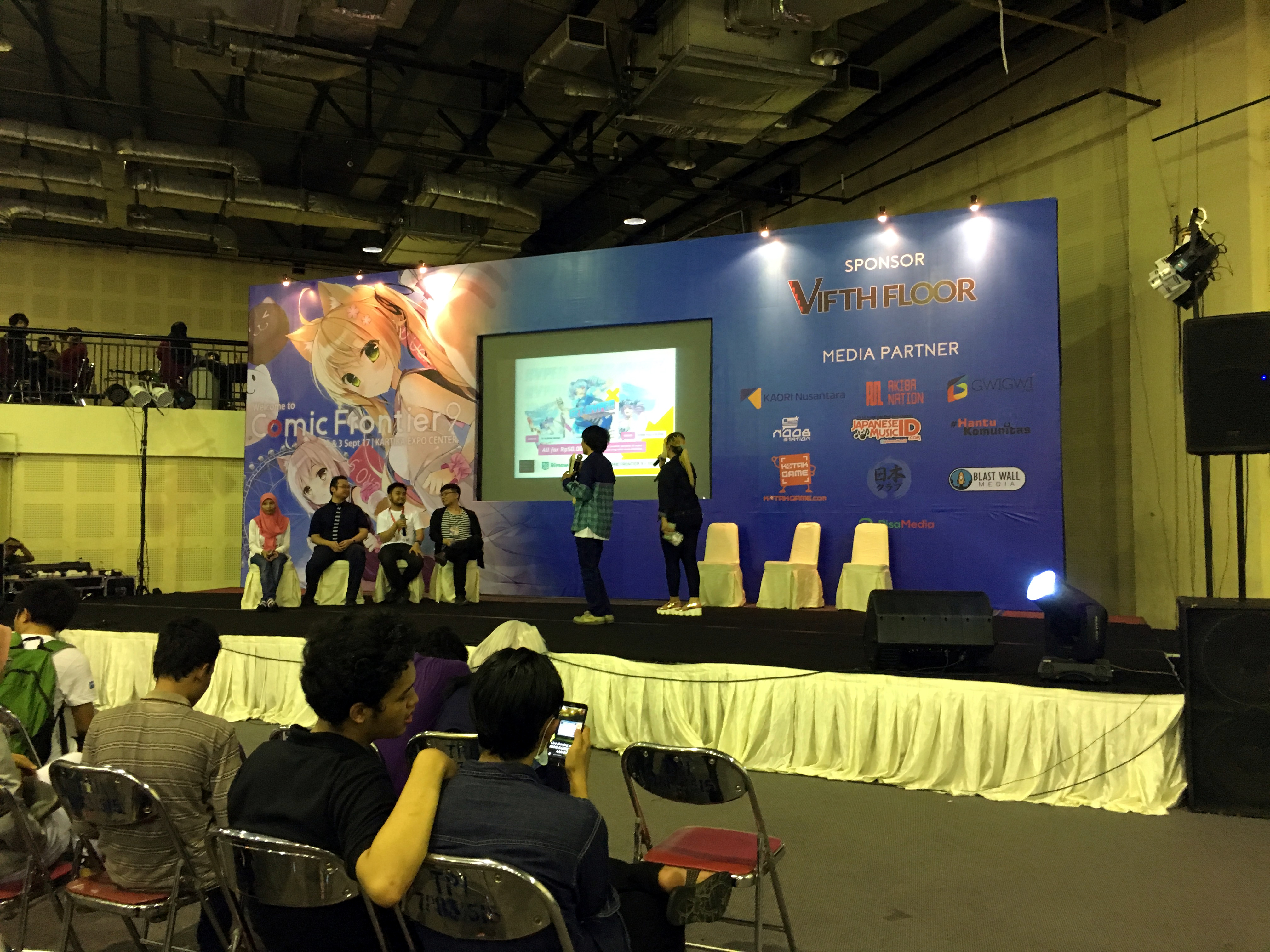 The main stage of Comic Frontier 9 during a presentation